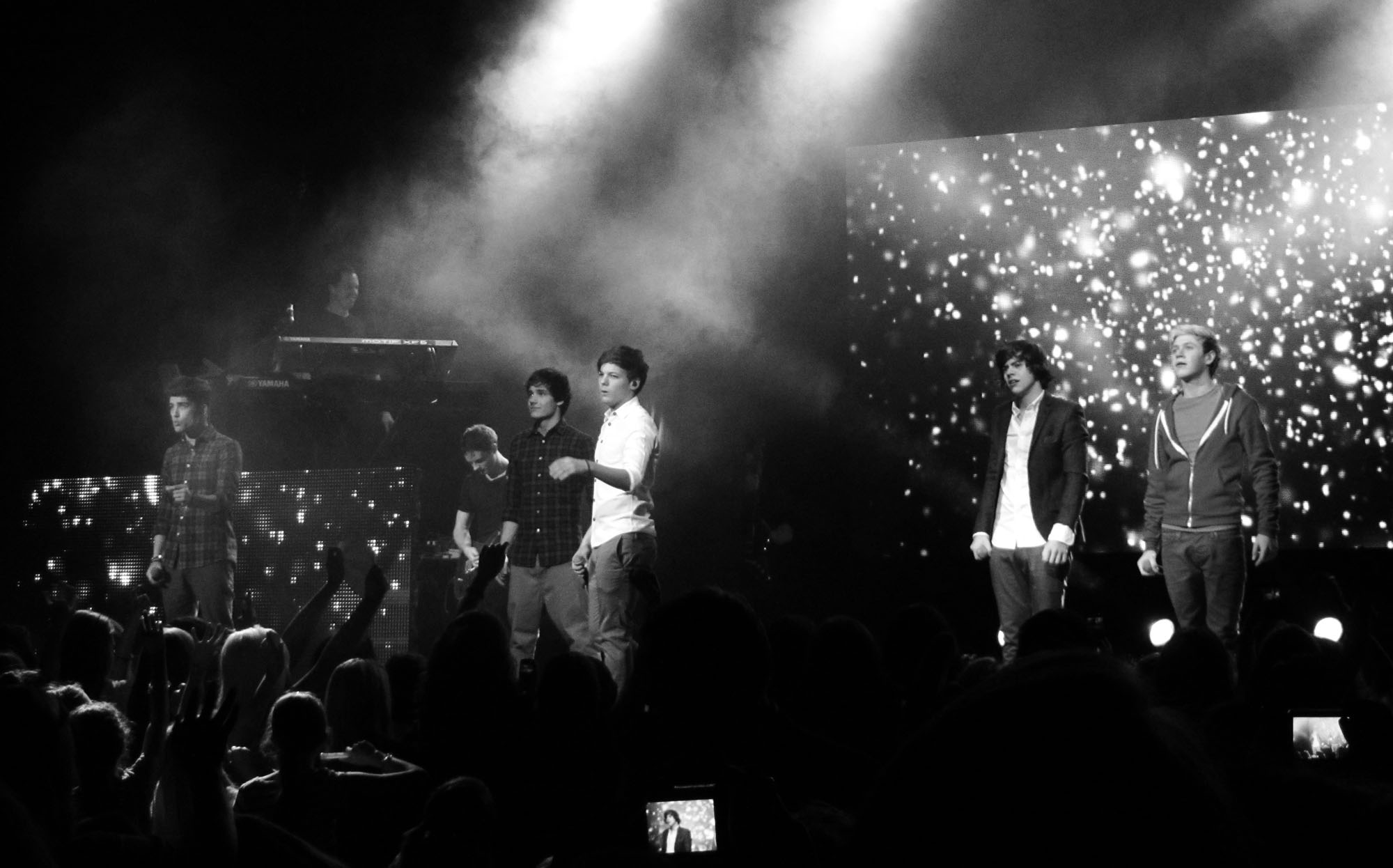 One Direction, Clyde Auditorium, Glasgow, Saturday 14 January 2012